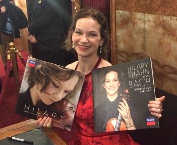 American violinist Hilary Hahn holds up two of her most recent albums at an album-signing event. This event took place after a concert at Wigmore Hall in 2019.